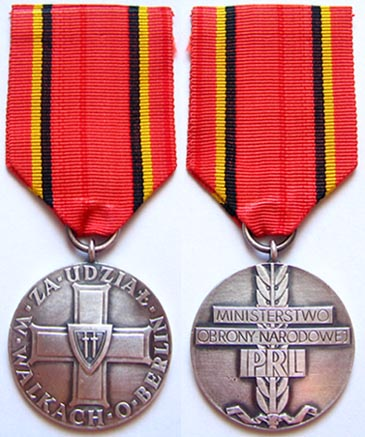 Polish Medal for fighting for Berlin - World War II decoration